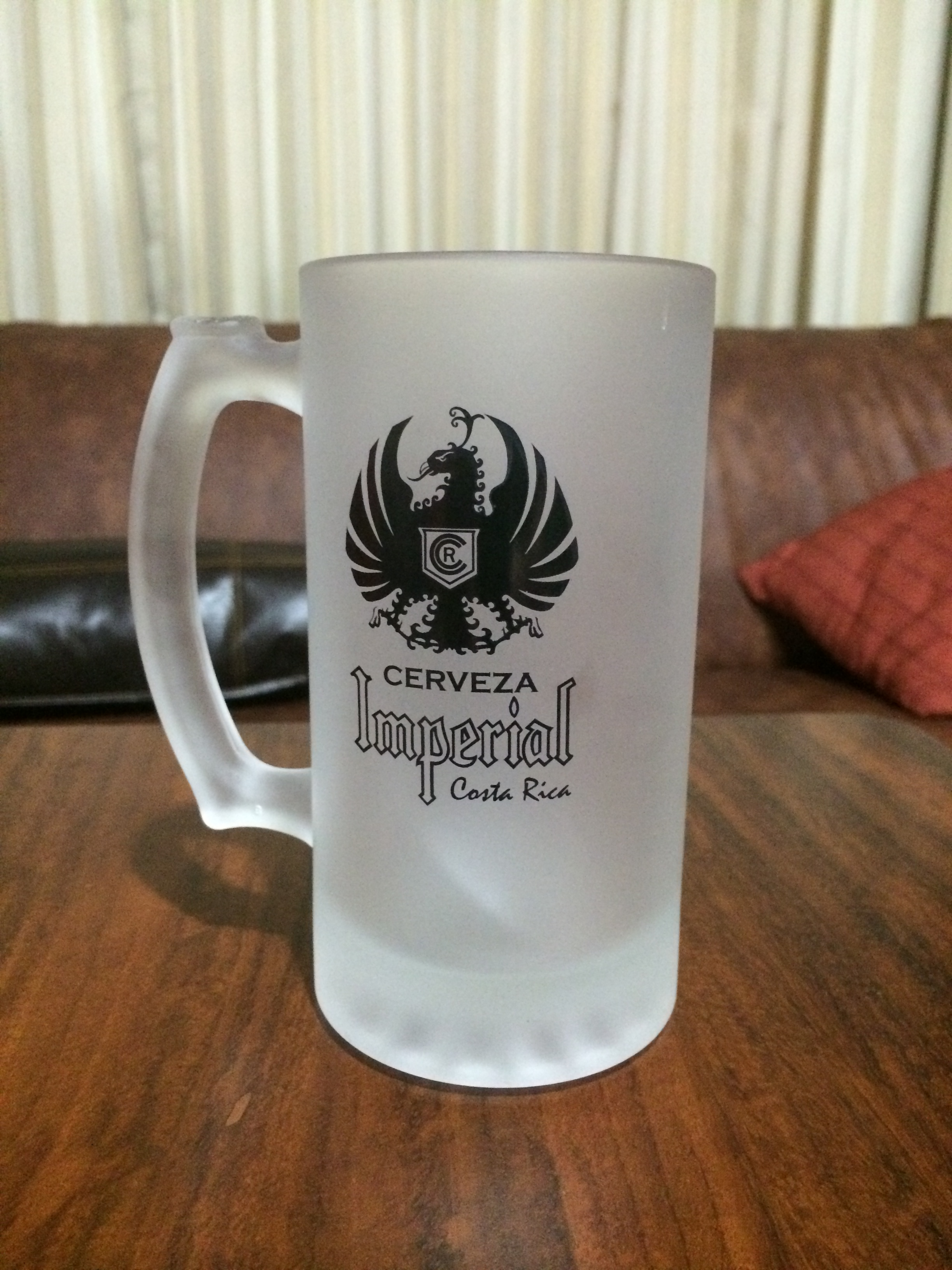 Costa Rica Beer stein